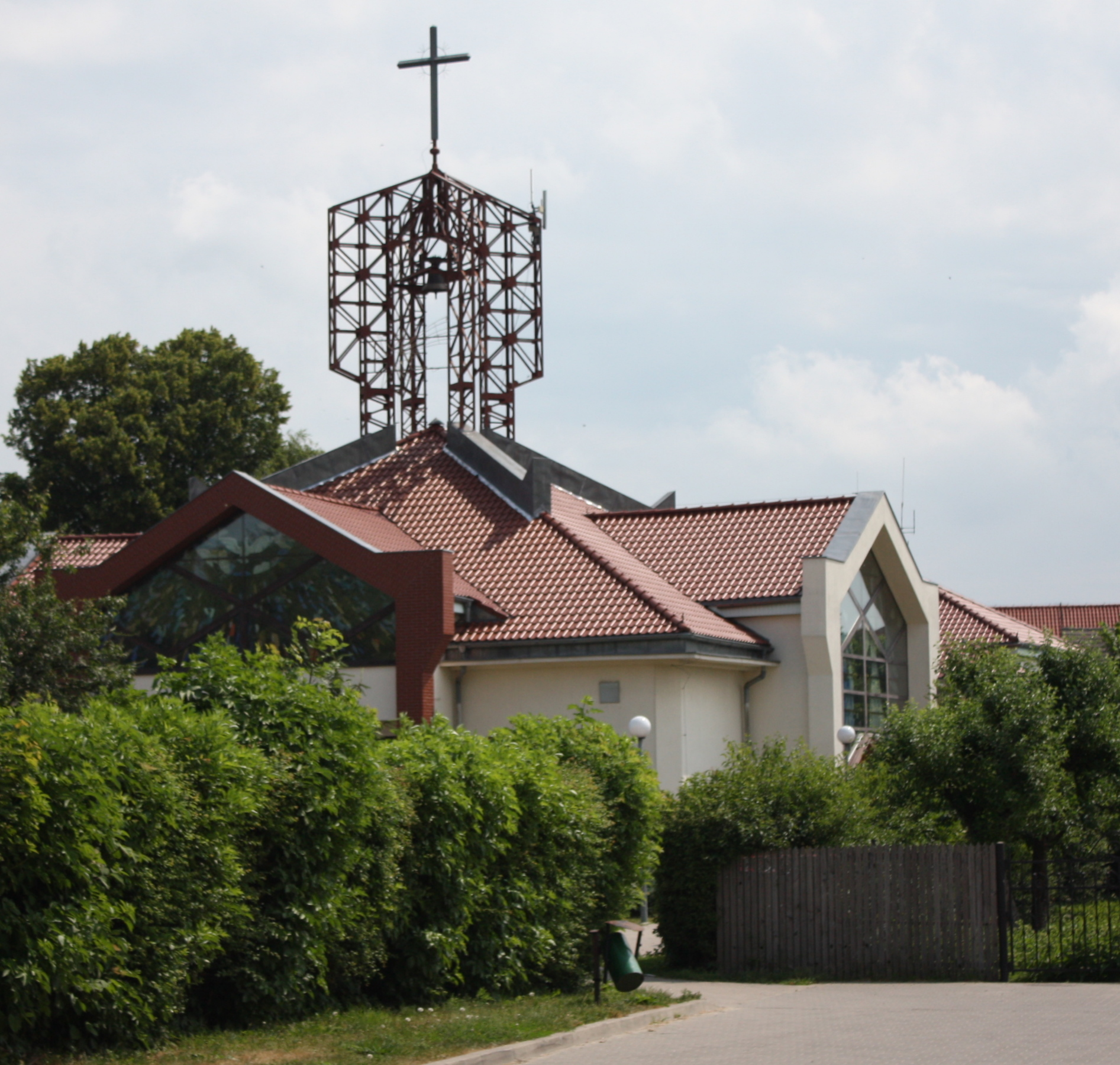 Nowy Dwór Gdański